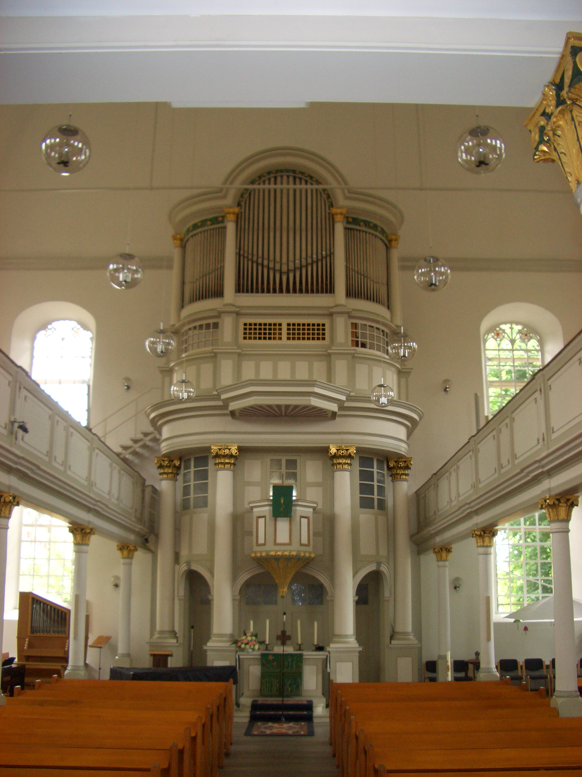 Pulpit of Paulus Church, Hückeswagen, Germany